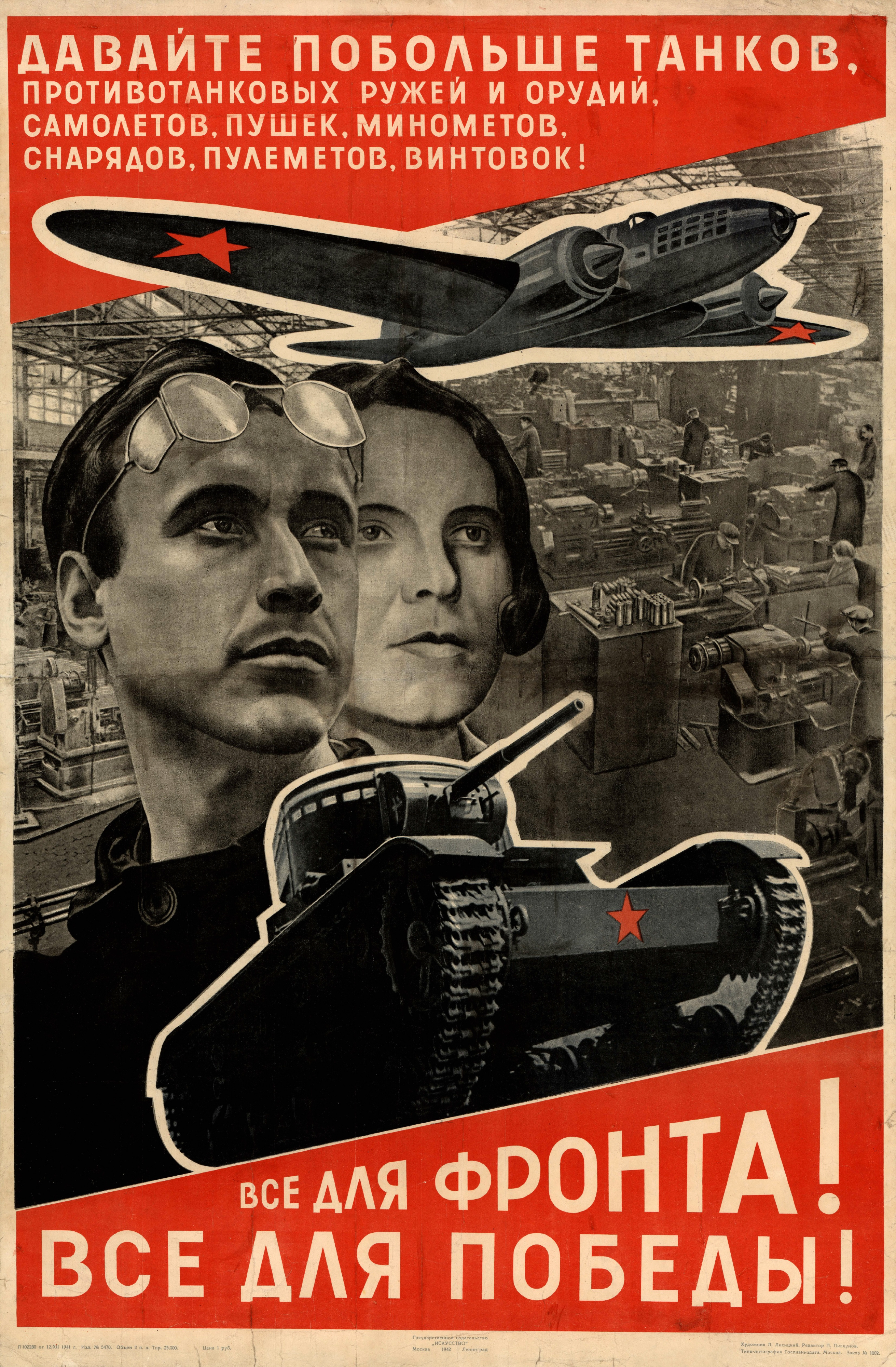 "Everything for the Front. Everything for Victory". WWII USSR propaganda poster